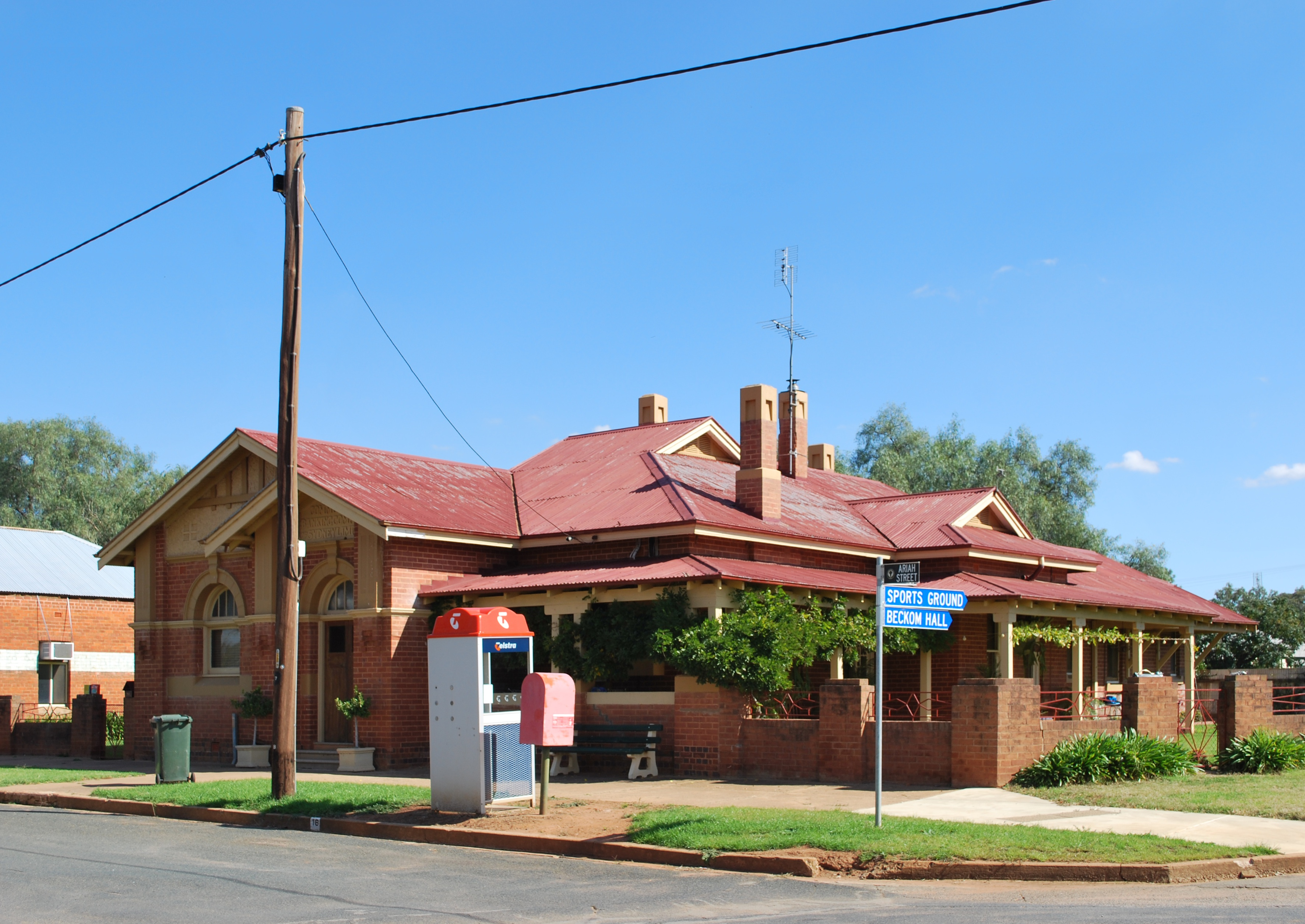 Former CBC Bank in Beckom, New South Wales